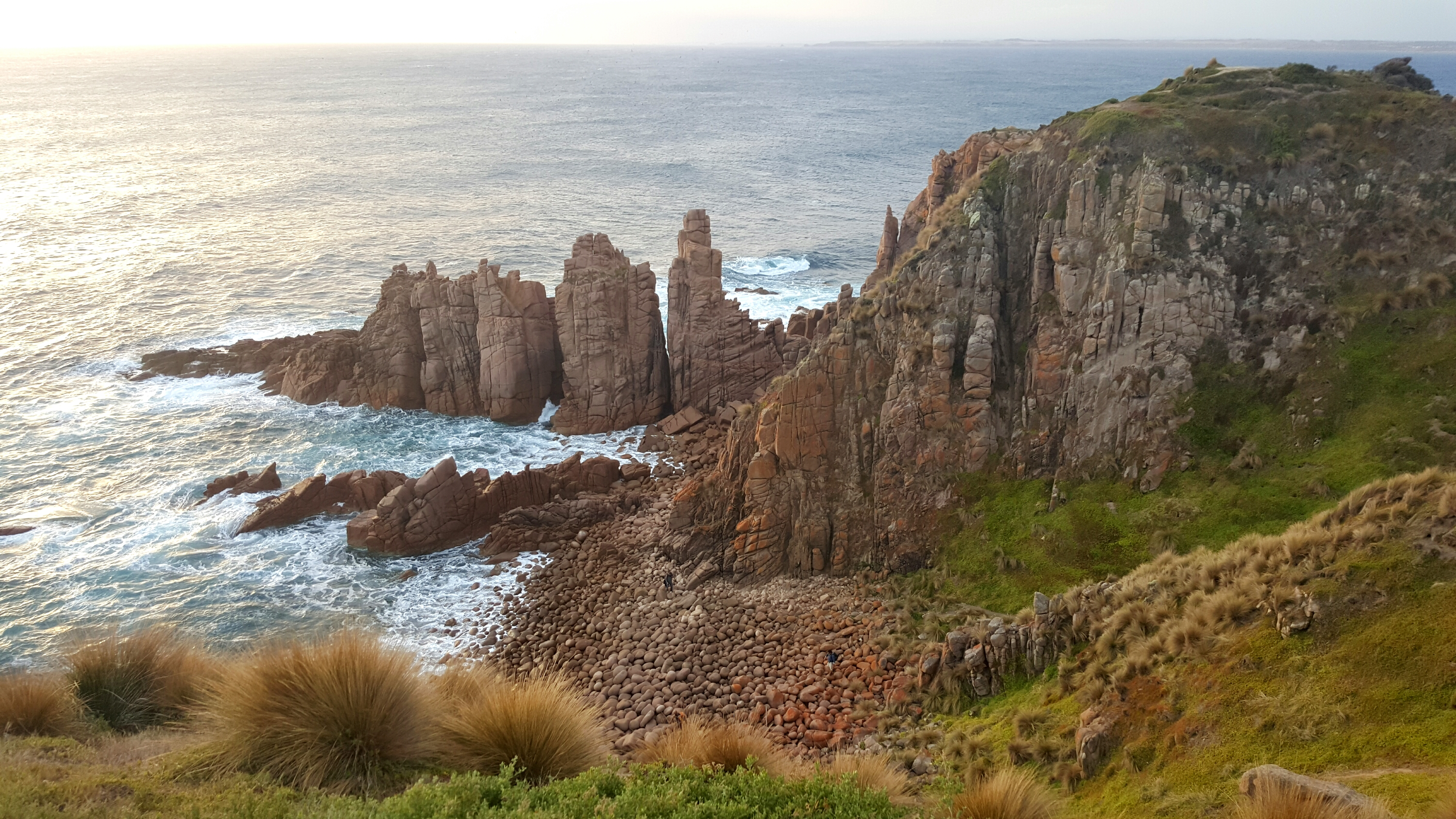 The Pinnacles, lava rock formation, Cape Woolamai, Phillip Island, Victoria, Australia.